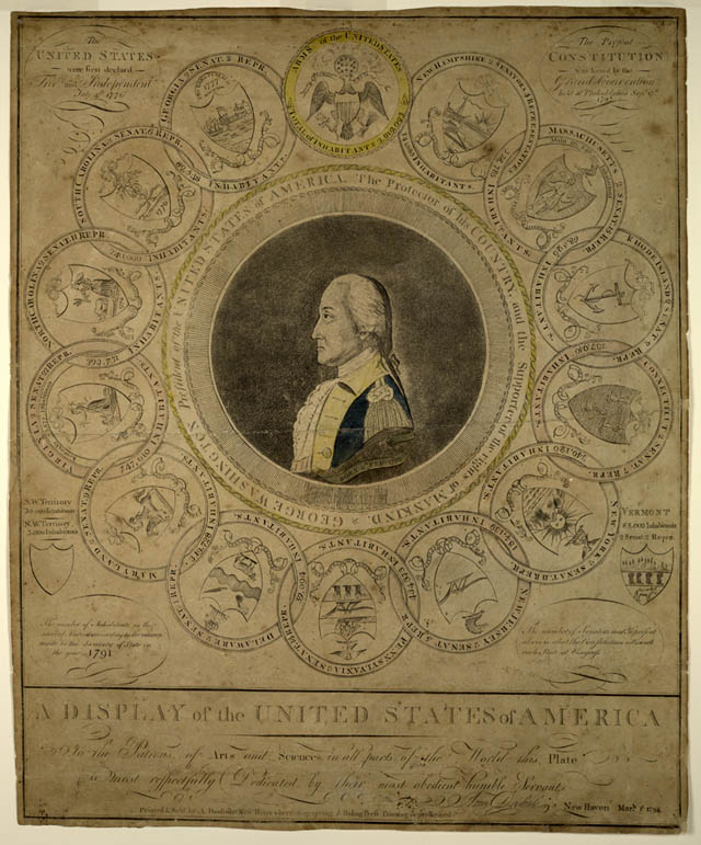 A 1794 engraving of a likeness of George Washington by American engraver Amos Doolittle.